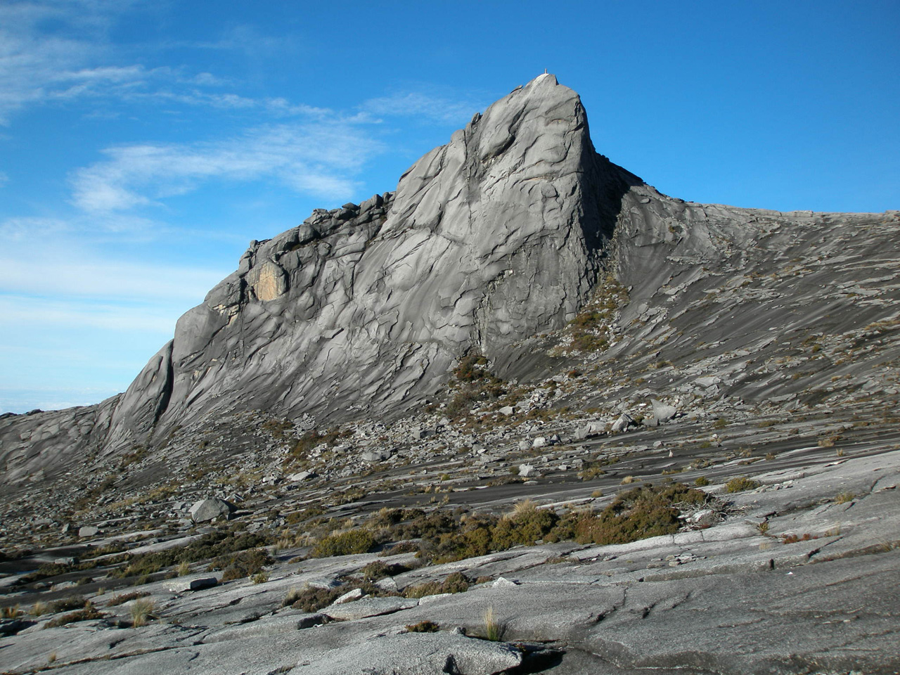 Summit of Mount Kinabalu.